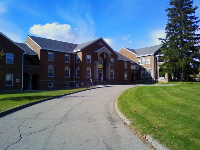 The Oddfellows building, housing the departments of English, Religious Studies, and Philosophy as well as the Meadville Community Theater and Child Care programs.